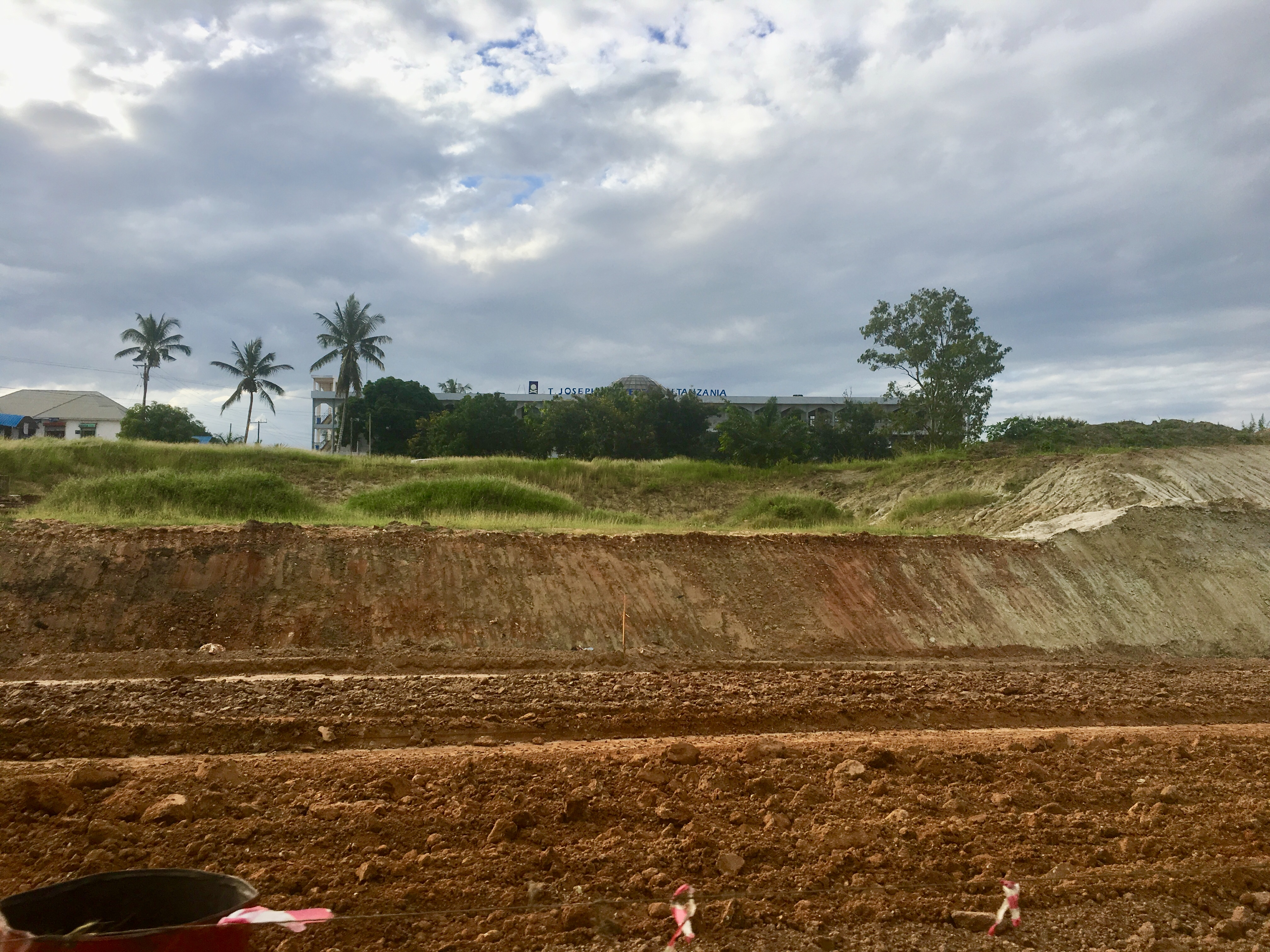 St. Joseph University In Tanzania